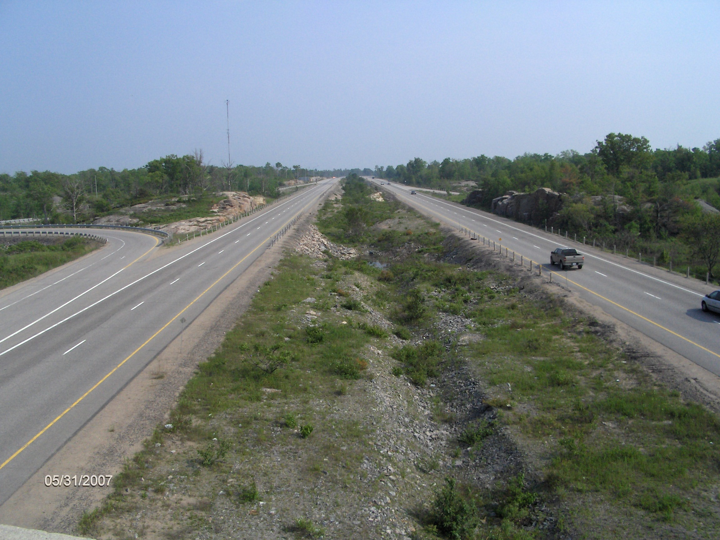 Highway 400 at exit 156, Georgian Bay, Ontario, Canada